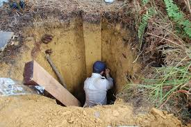 Taking a soil monolith for the ISRIC World Soil Museum (Kalimantan, Indonesia)